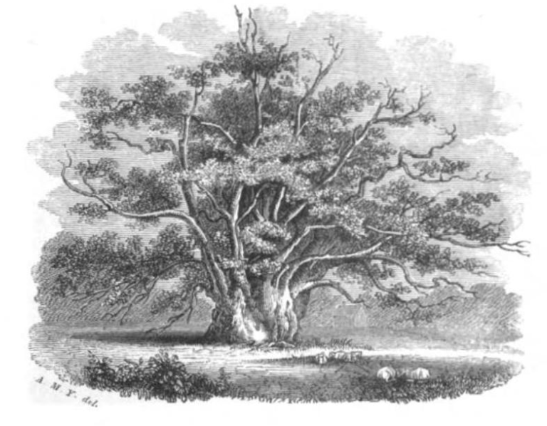 The Newland Oak (identified as such by John Timbs on page 116 of